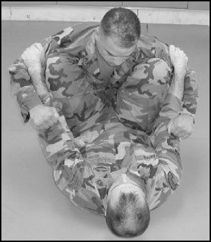 Soldiers demonstrating on method of blocking strikes from inside the guard.